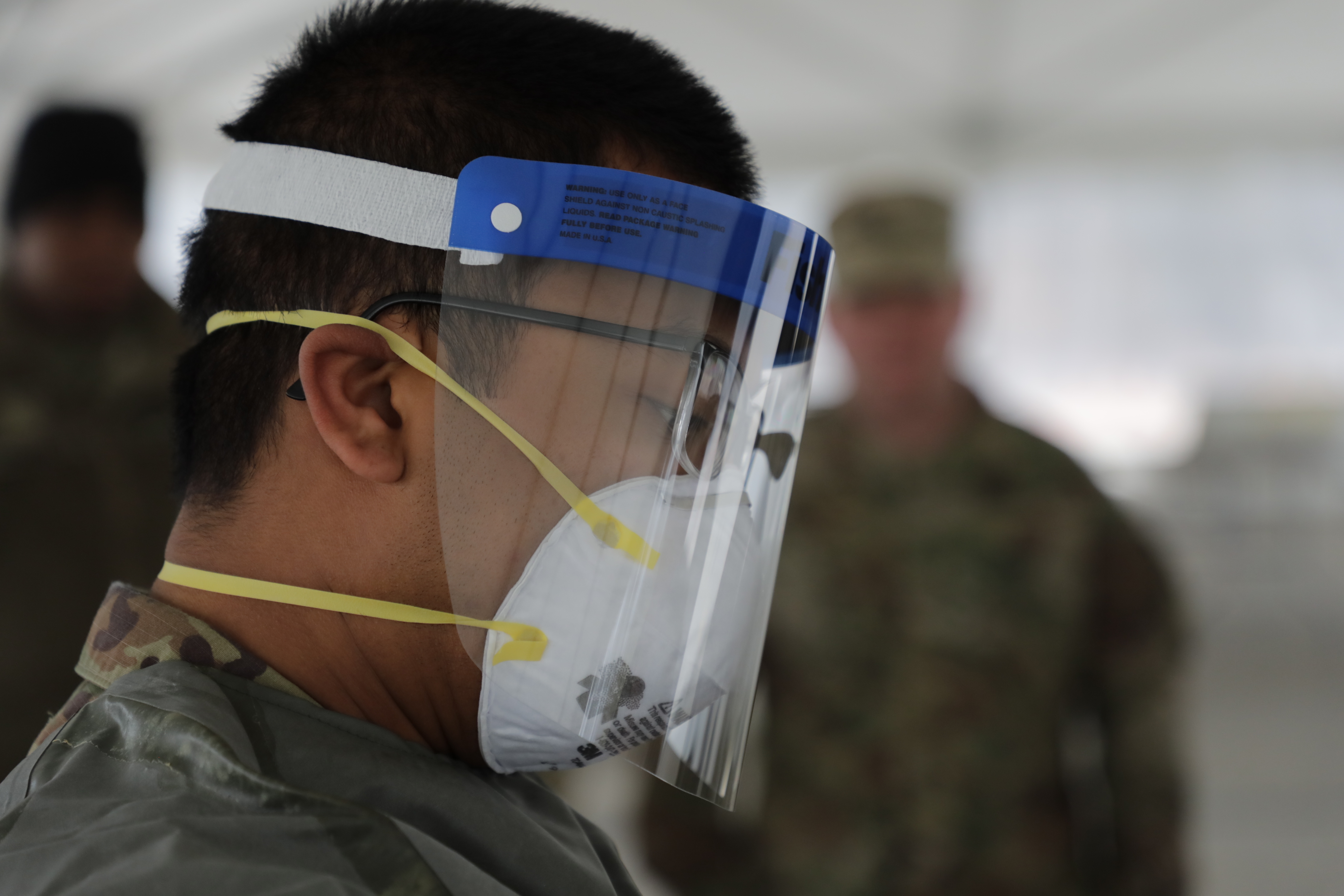 On Monday, March 30, 2020, Rhode Island National Guard members began setting up a testing station at Community College of Rhode Island, Warwick. Soldiers and Airmen of the Rhode Island National Guard have been activated by Governor Gina Raimondo to support this historic fight against COVID-19. (Air National Guard photo by Staff Sgt. John Vannucci)